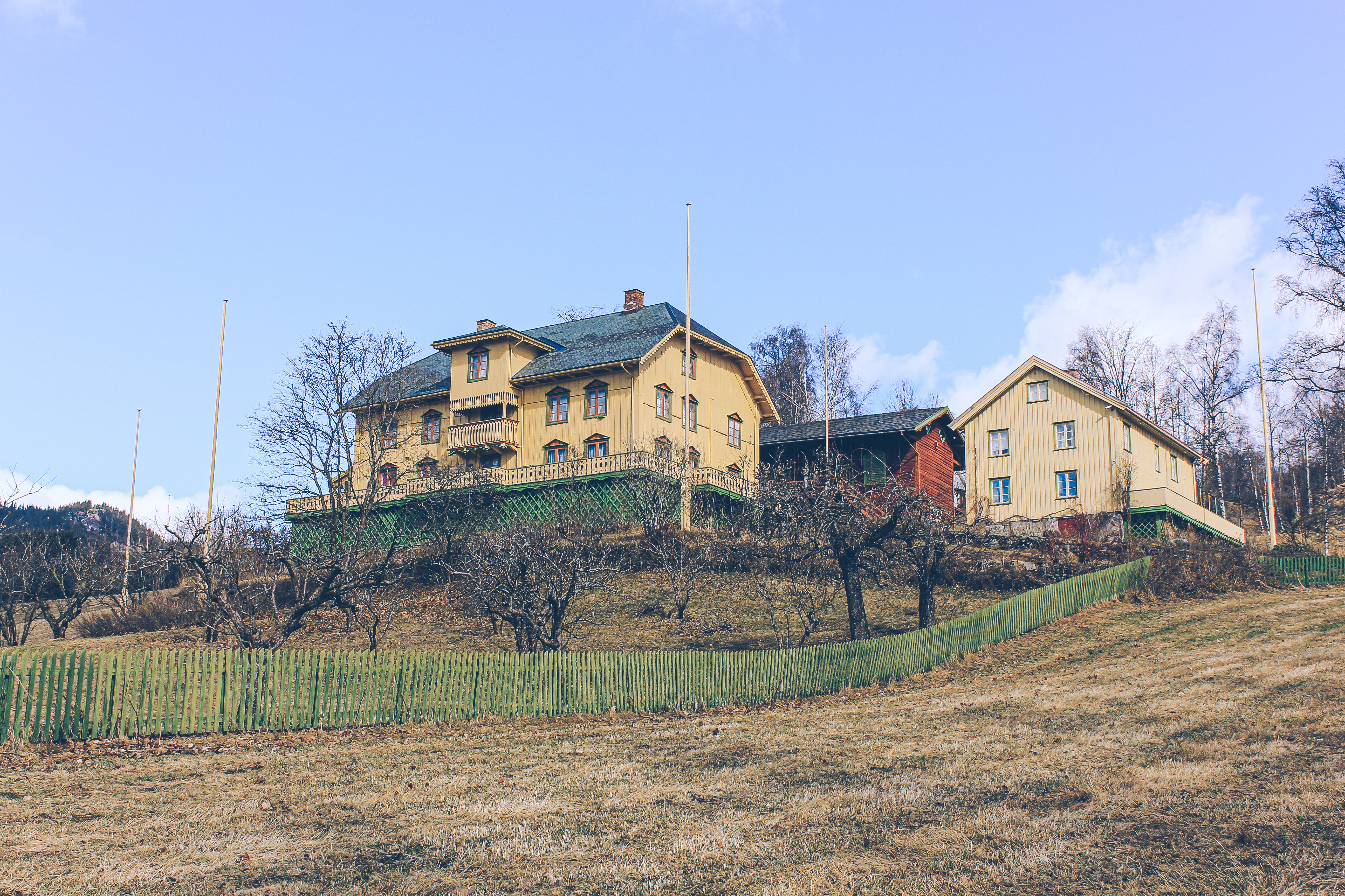 The farm house of Bjørnstjerne Bjørnson, Aulestad in Gausdal, Oppland, Norway.